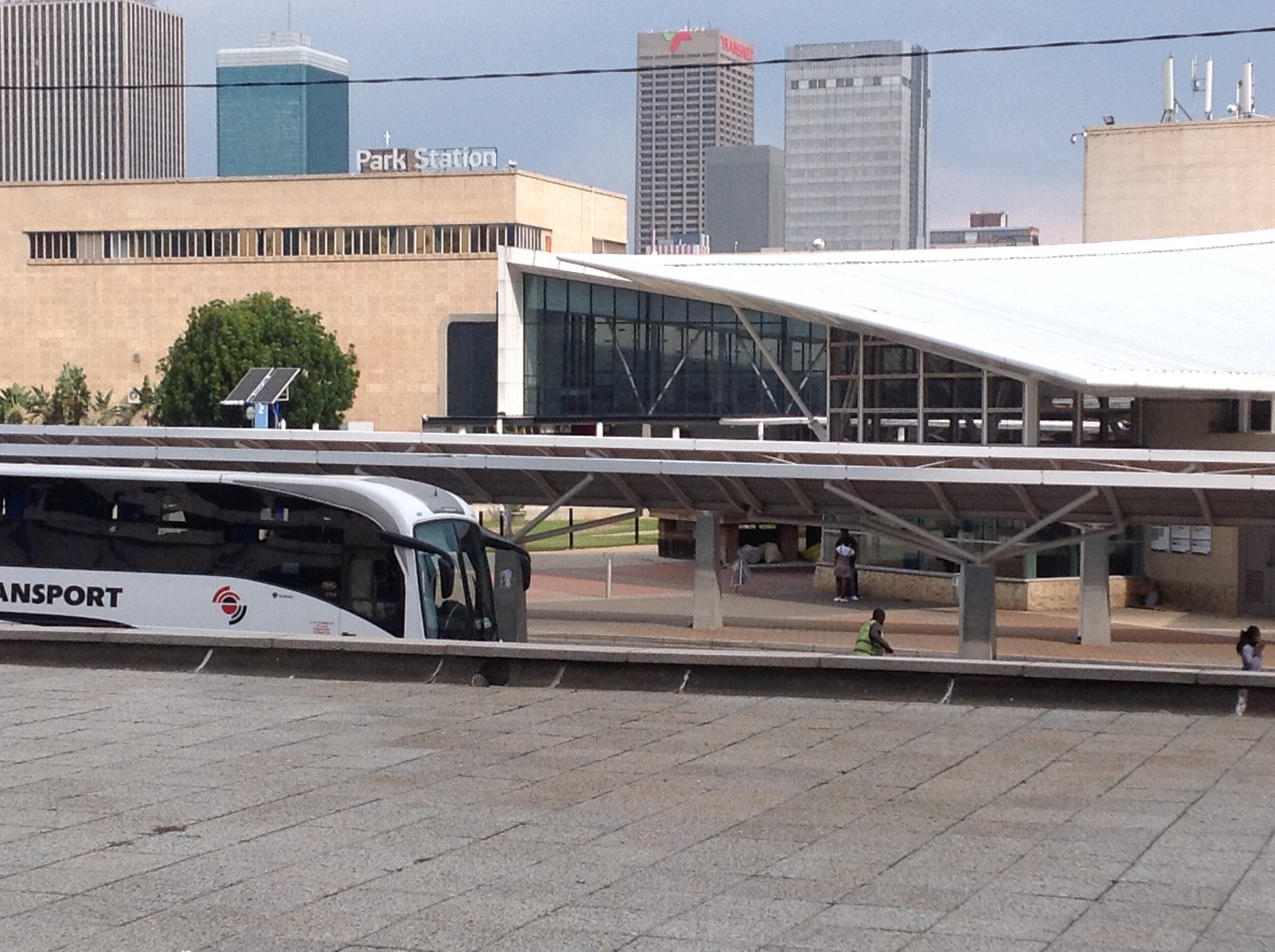 Public Transport This is an image with the theme "Africa on the Move or Transport" from: South Africa